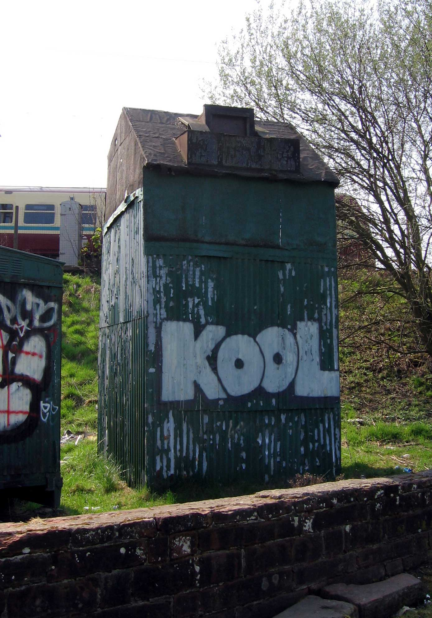 Doocot next to a railway line in Partick, Glasgow, Scotland.